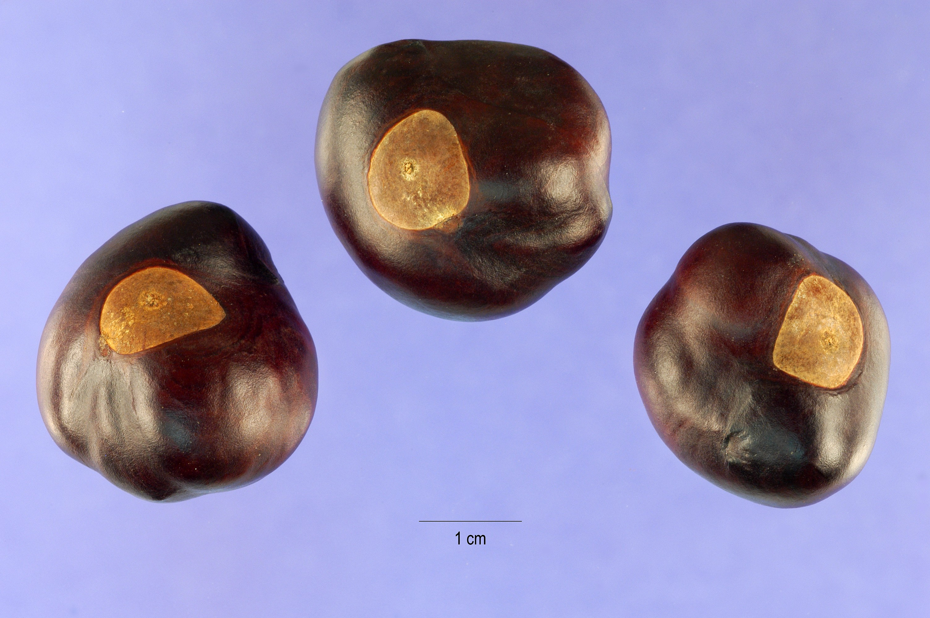 Ohio Buckeye. Nuts from Allenton, MO, USA.